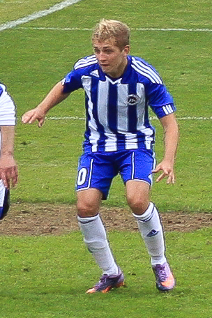 Deniss Rakels, Latvian football player